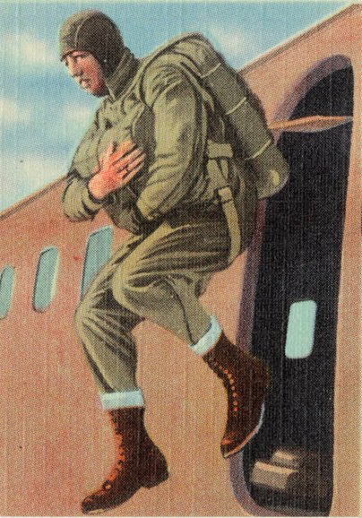 Extracted from the image shown. Shows a US paratrooper training at Fort Belvoir, Virginia. Circa 1930-1945.